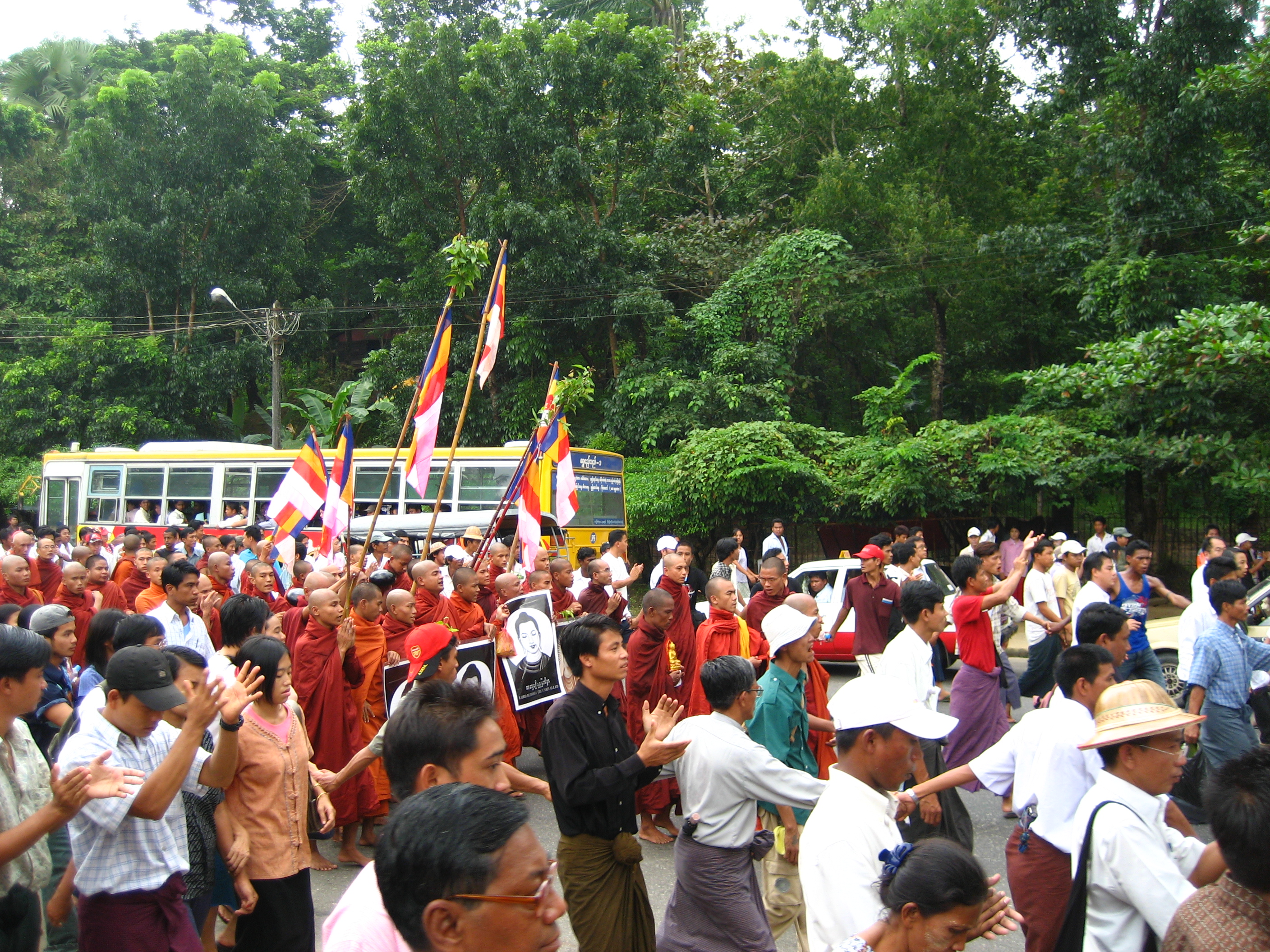 Monks Protesting in Burma